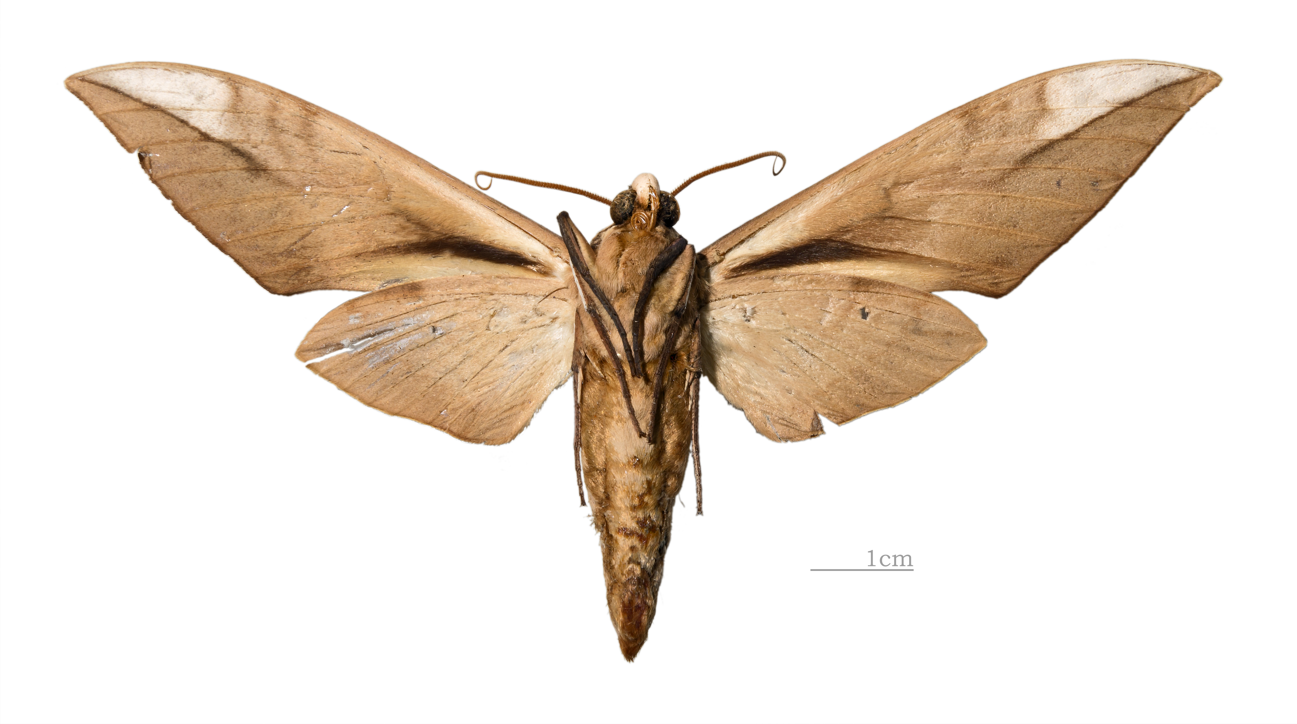 Clanis schwartzi Paratype - △ Ventral side Paratype